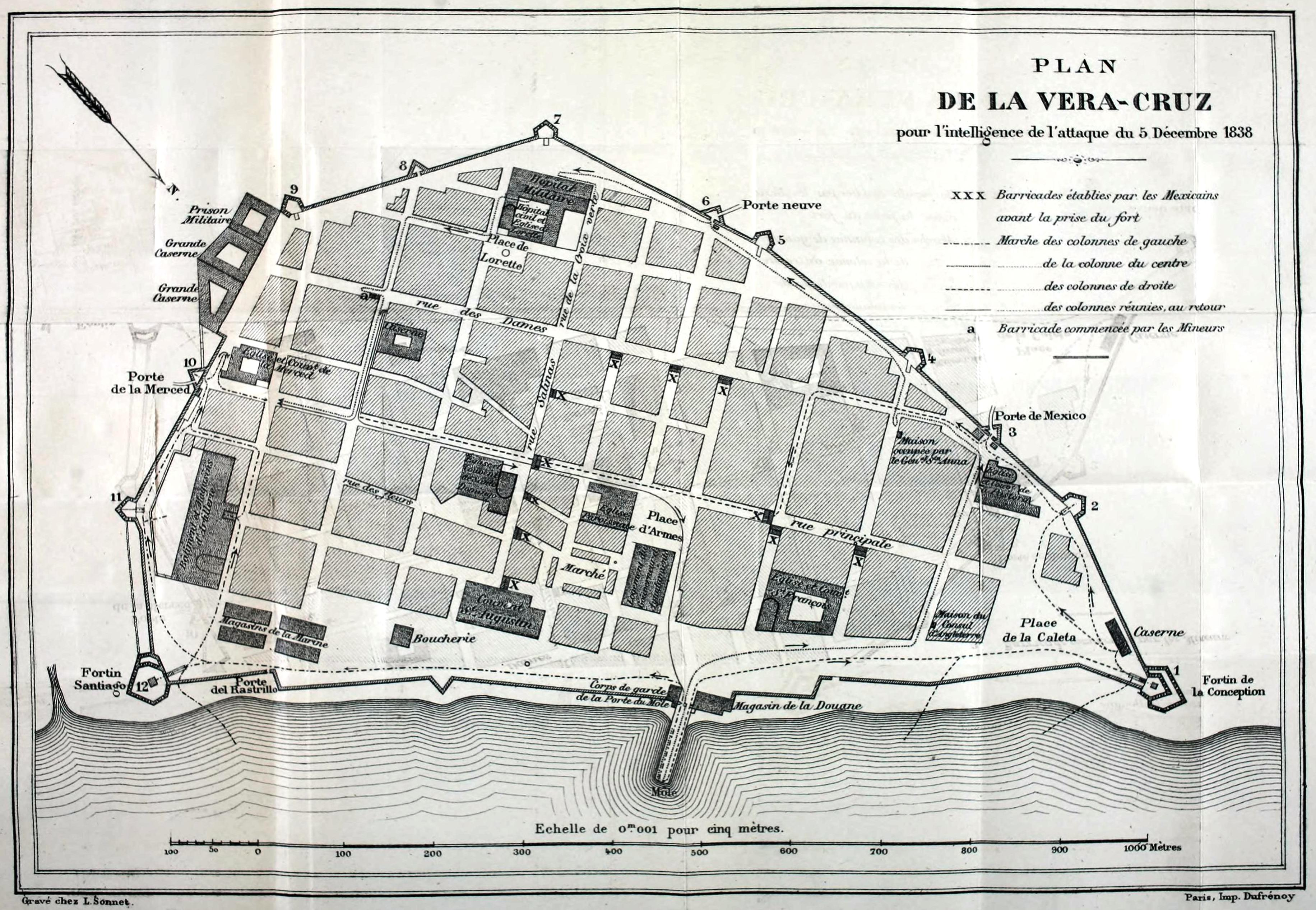 Expedition of the Baudin Vice-Admiral during the conflict against the Mexico. Plan the progress of the troops of French marines in the city of Vera Cruz in the assault on December 5, 1838.